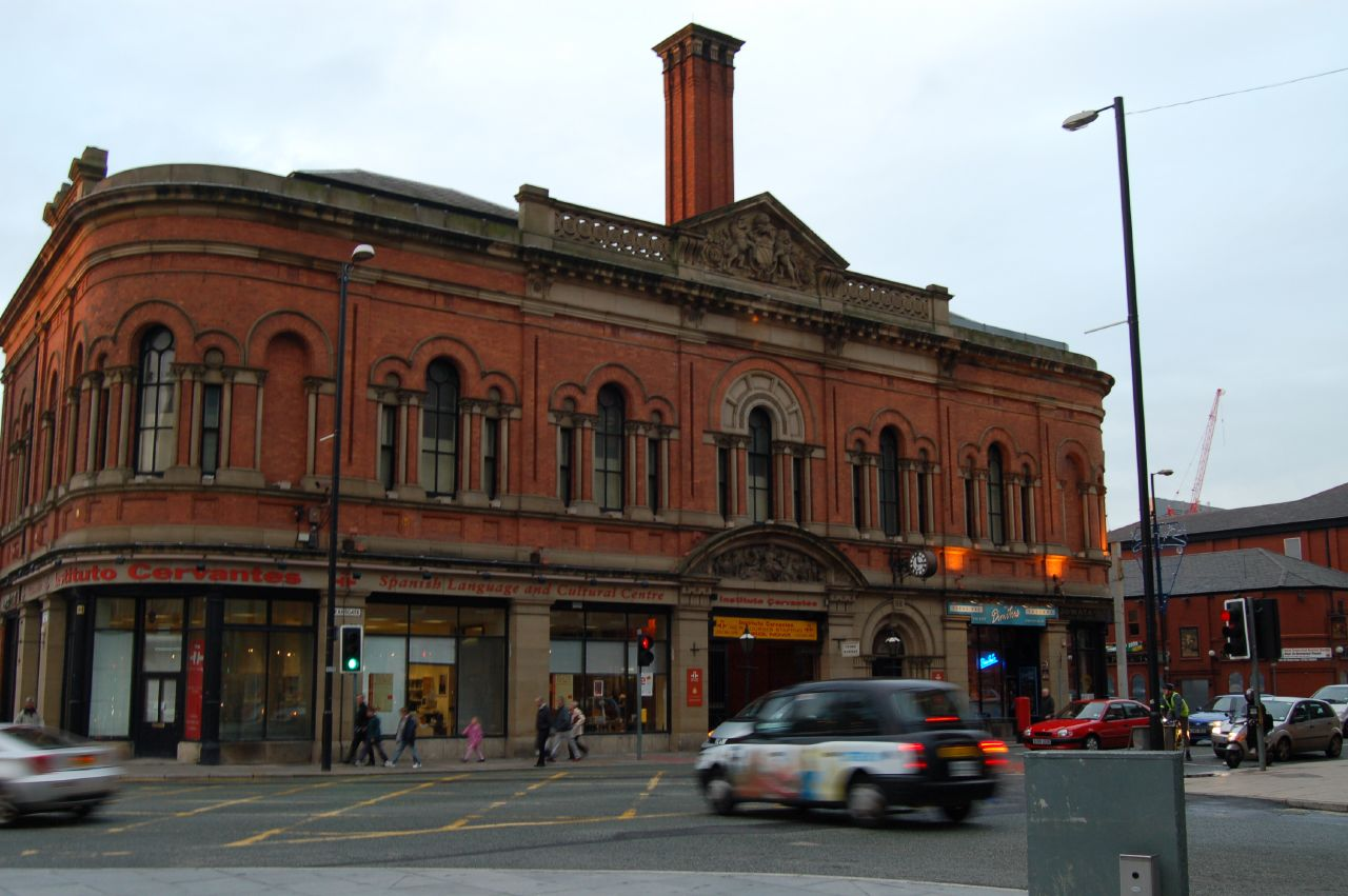 Instituto Cervantes in Manchester. Aardig bakstenen gebouw van het soort waarvan je er in Manchester veel ziet.